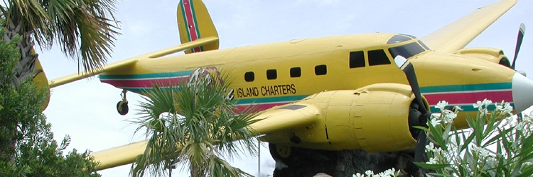 PV-2 HARPOON LOCATED AT MAYDAY GOLF NORTH MYRTLE BEACH SC 14 AUG 2012